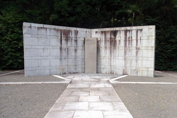 Shizuoka-ken Senbotsu Sensaishisha Ireihyō is situated in Shizuoka City, Shizuoka Prefecture. This cenotaph was designed by Tadao Tanaka Architecture Office.